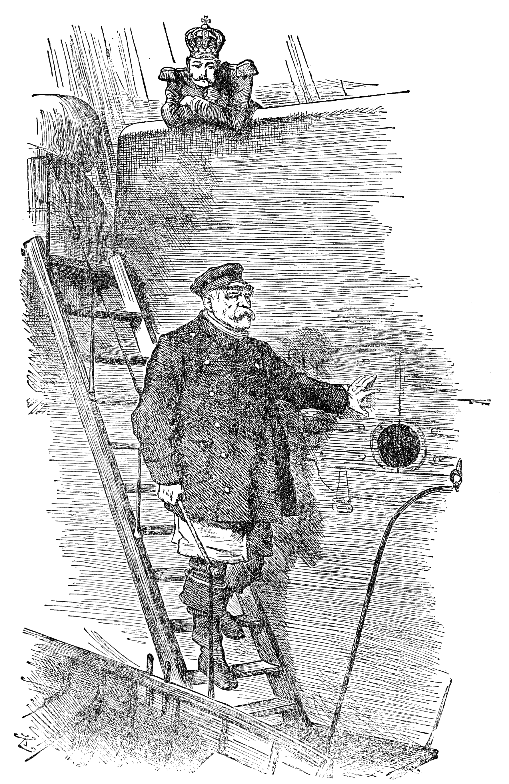 Dropping the pilot Bismarck